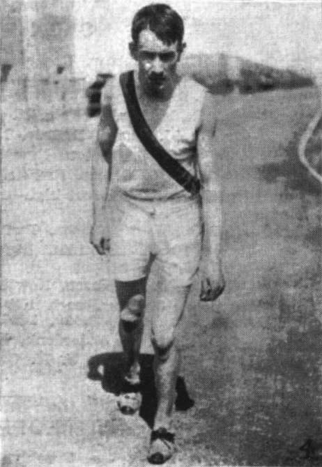 Joseph Forshaw, Athlet and medalwinner at the 1908 Olympic Games photography, adapted reproduction, no restrictions on use Copyright: free of charges